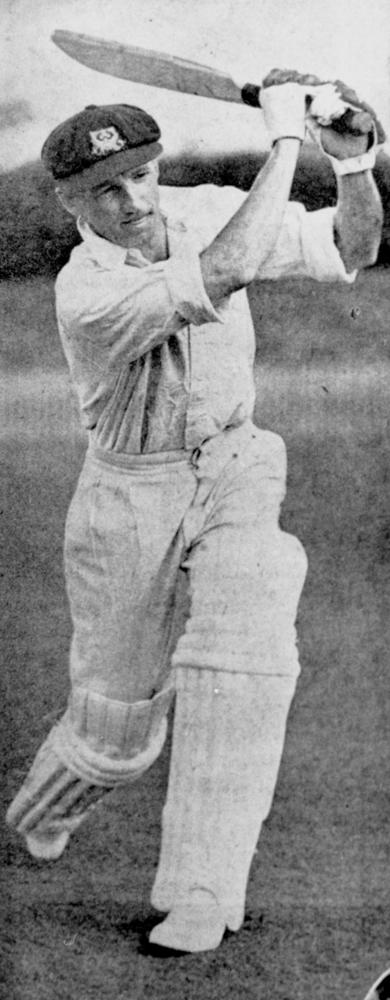 Donald Bradman practises his drive, 1936. Donald George Bradman, cricketer, was born on the 27 August, 1908 at Cootamundra in New South Wales and grew up in Bowral. His love for cricket saw him follow a steady rise in the game through New South Wales country, district and the State ranks that led to his first test debut against England in the first test of the 1927–28 series. At the age of 20 years he was the youngest man to have scored a test century. His dominance in batting forced the English to consider ways to control him, a tactic the Australians vilified as "bodyline". Bradman's average of 99.94 remains by far the highest by a test cricketer. In 1948 he was knighted, and in 1985 was inducted into the Australian Sports Hall of Fame. Considered by many to be the greatest batsman ever, Sir Donald Bradman died at his home in Adelaide on 25 February 2001. (Information from: Monash biographical dictionary of twentieth-century Australia, 1994 ).